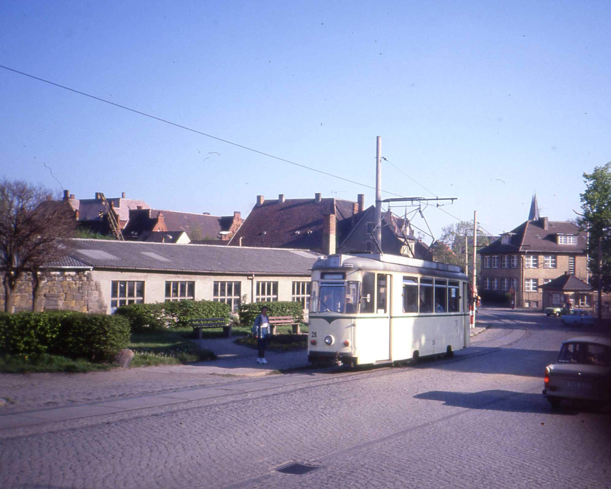 Reko tram (#28) in Halberstadt, Germany in the 1990th.